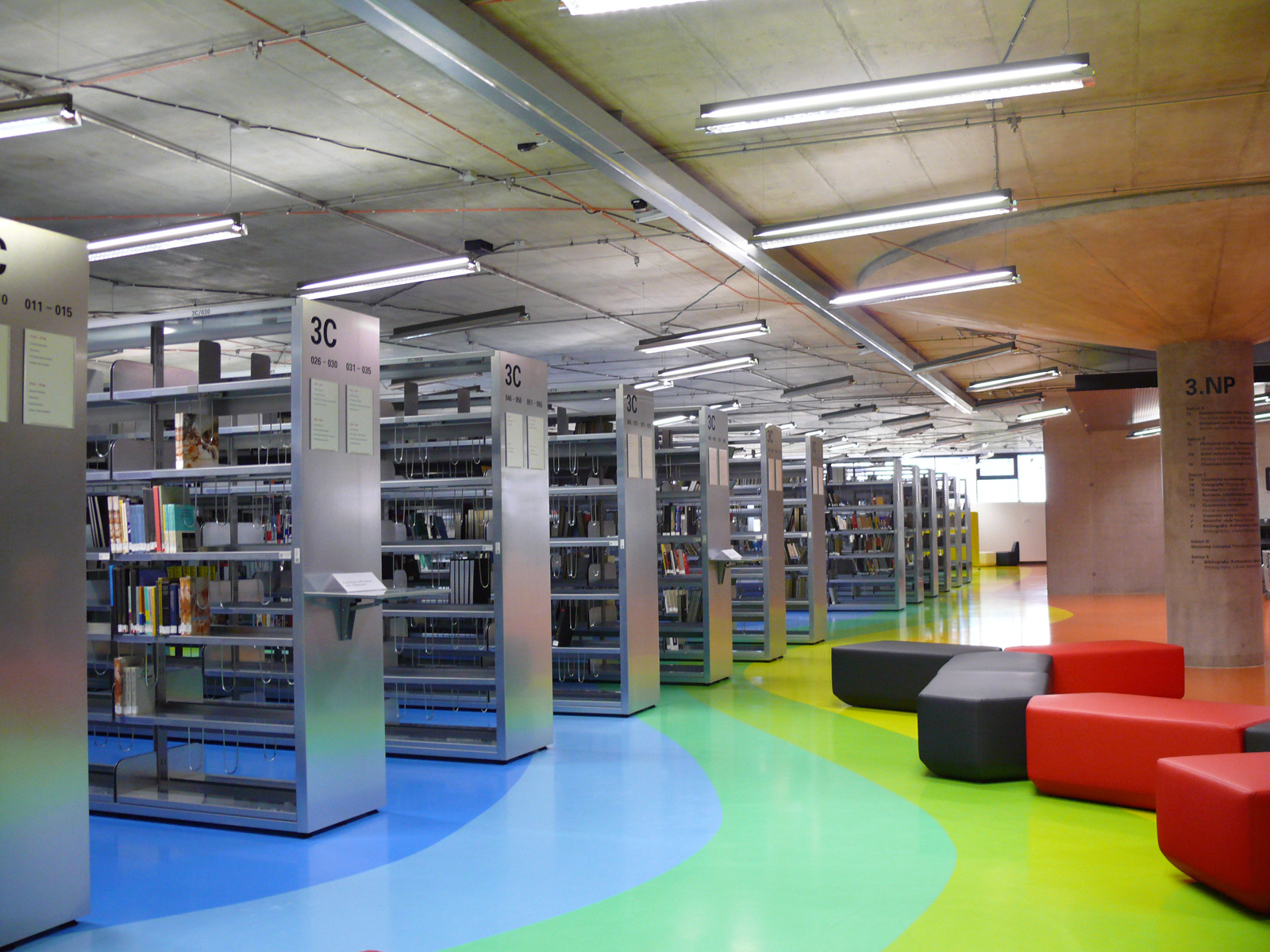 NTK (Prague, CZ)